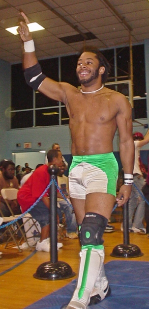 Professional wrestler Jay Lethal in 2005